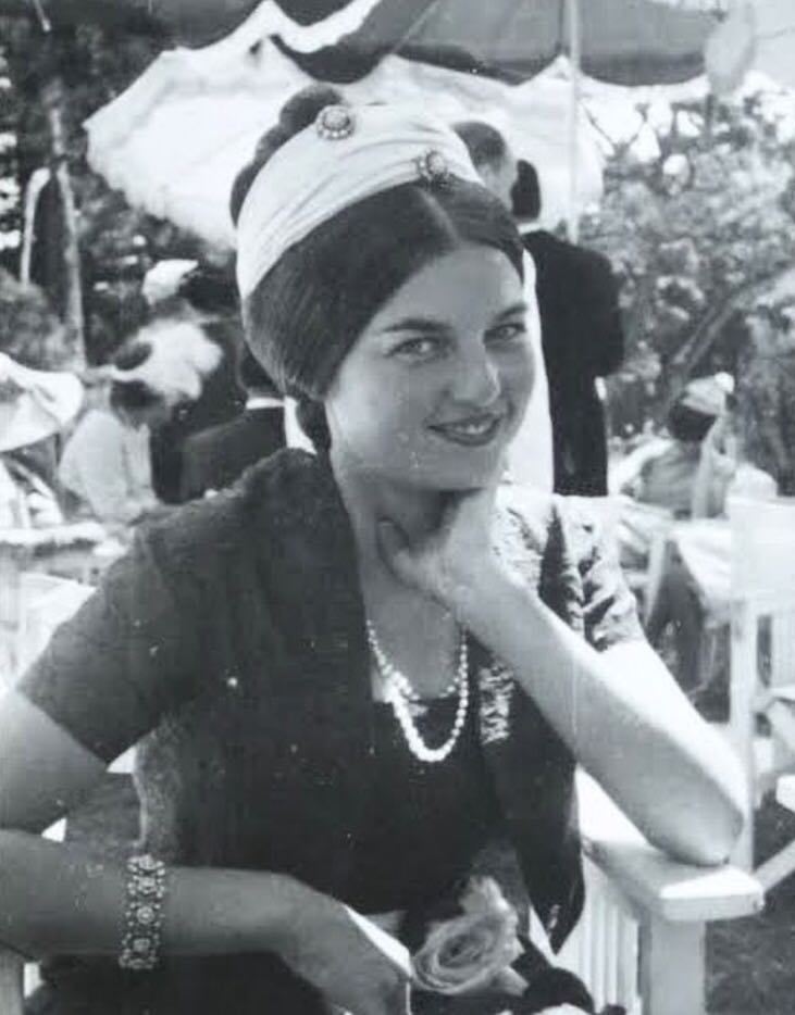 Princess Anne at the wedding of her younger sister Princess Claude to the Duke of Aosta NOTE: it has been asserted here and here that this image is of Princess Anne of Orleans (Duchess of Calabria), not Princess Diane of Orleans (Duchess of Württemberg). That assertion has not yet been proven, but if it is correct, then the image name should be changed.